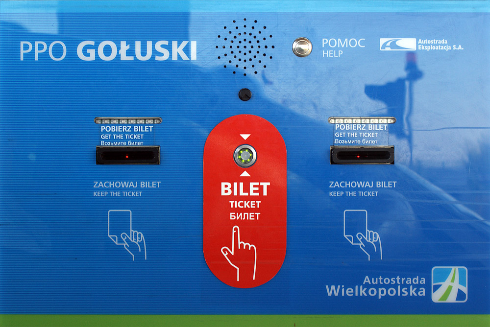 Ticket machine at Gołuski toll plaza (west of Poznań, direction of Świecko)